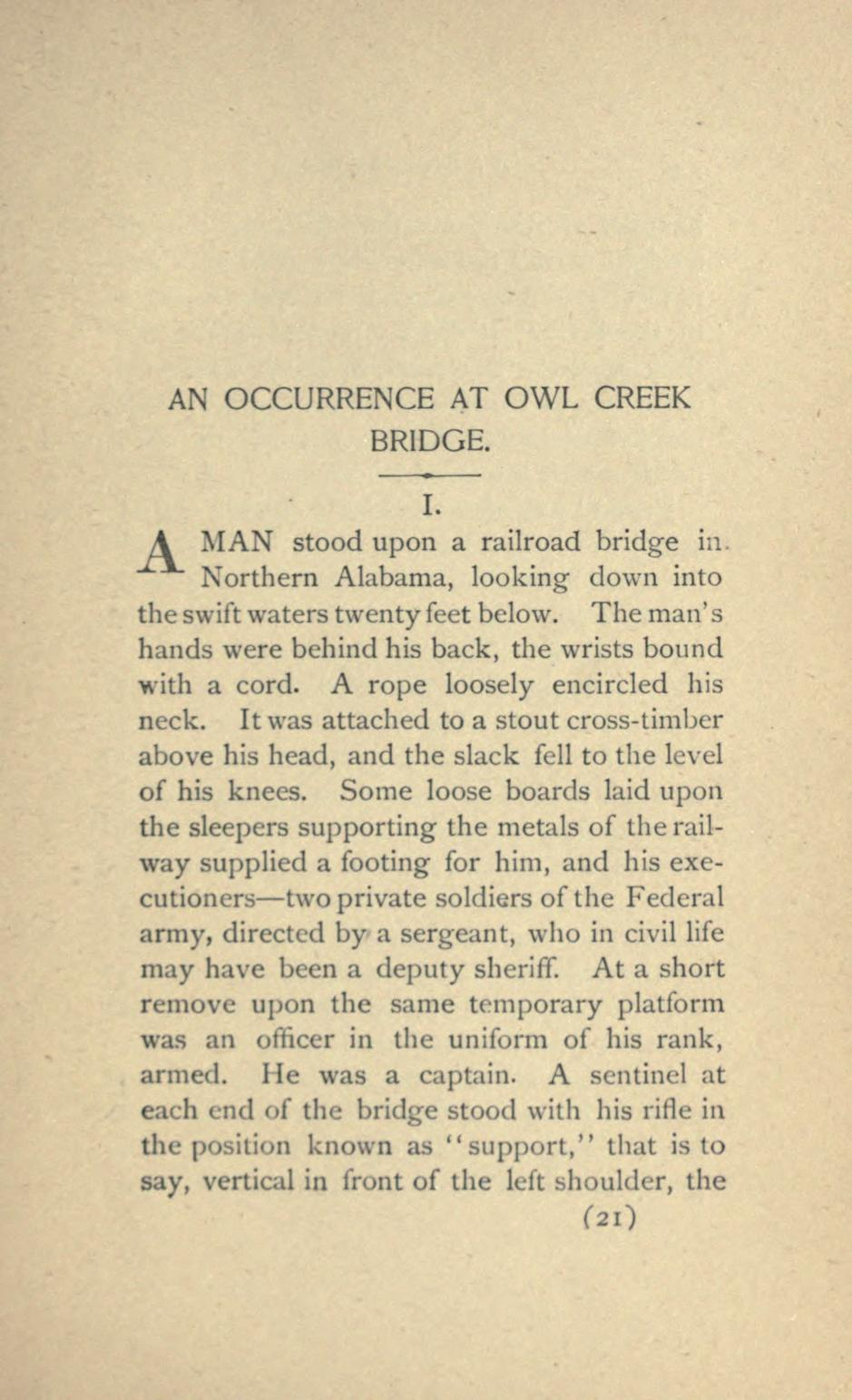 Tales of Soldiers and Civilians 1st ed, p. 21.